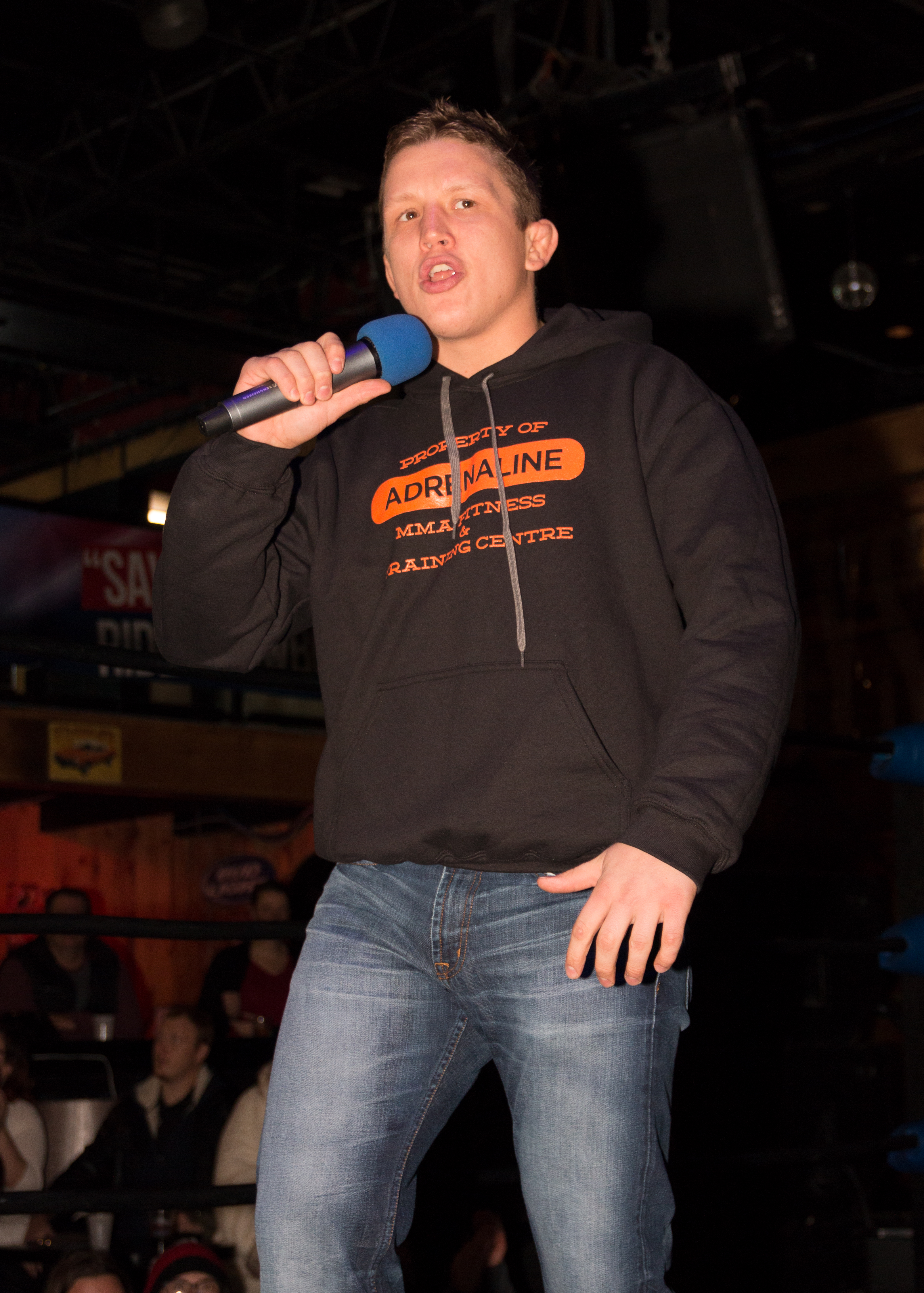 MMA fighter Chris Horodecki at a Smash Wrestling show in London, ON